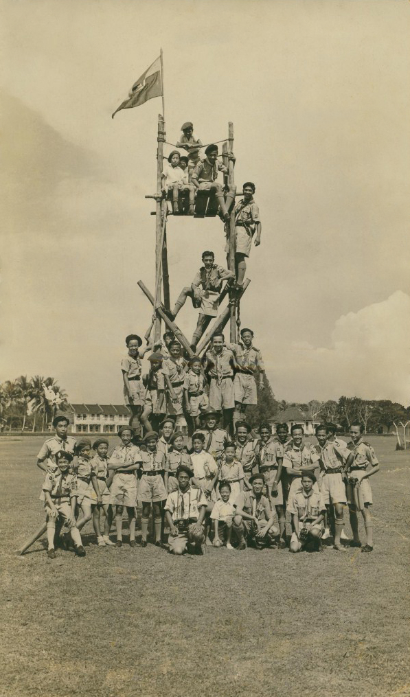 Members of the 6th Troop of the Arrow Scout Group of Victoria School, Singapore, at a youth rally.